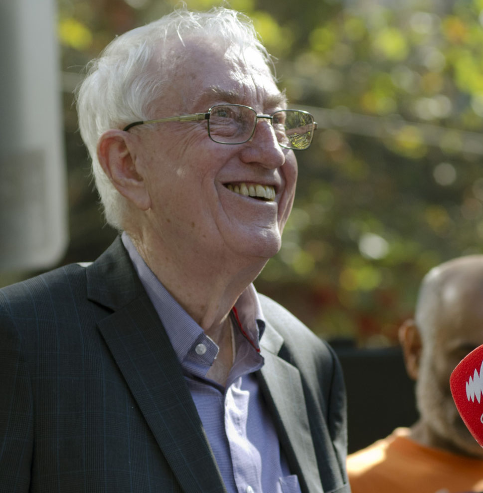 Professor Peter Doherty at the March for Science - Melbourne 2017